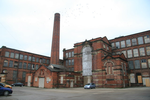 Western Mills, Wigan